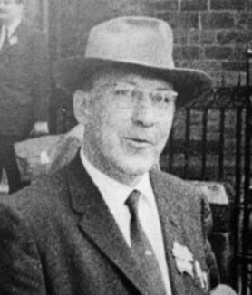 The French-Polish mathematician Szolem Mandelbrojt